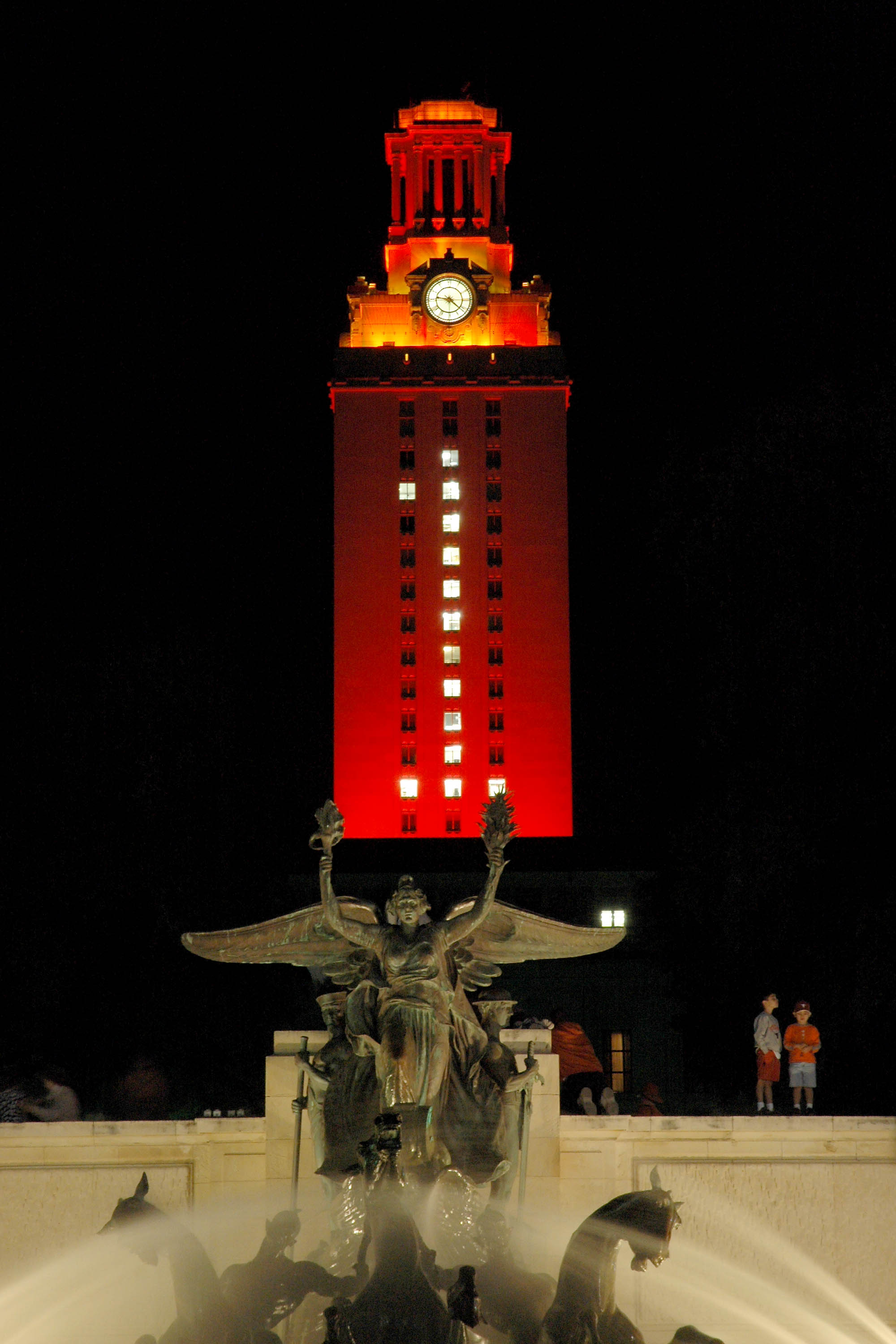 This one is for Harlan. I wish I'd have been able to line it up a little better and stand back some, but there were just too many photographers around the sweet spot! Even standing here, this one guy in front of me here kept swinging his head back and forth trying to get an angle for his own photo. I just kept pressing the shutter hoping to catch one without the blur of his head in my frame. 15 tries, and here it is! I edited this picture fo make it look more like the one I'd hoped to shoot, and posted the result here.